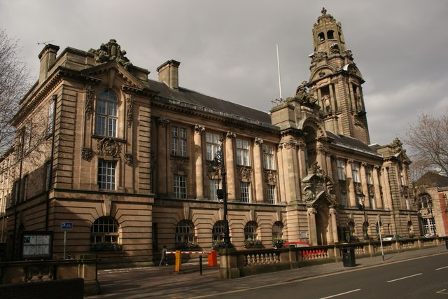 Walsall Council House Walsall has a fine Council House situated on Lichfield Street. This building, over the years, has seen some interesting political times.